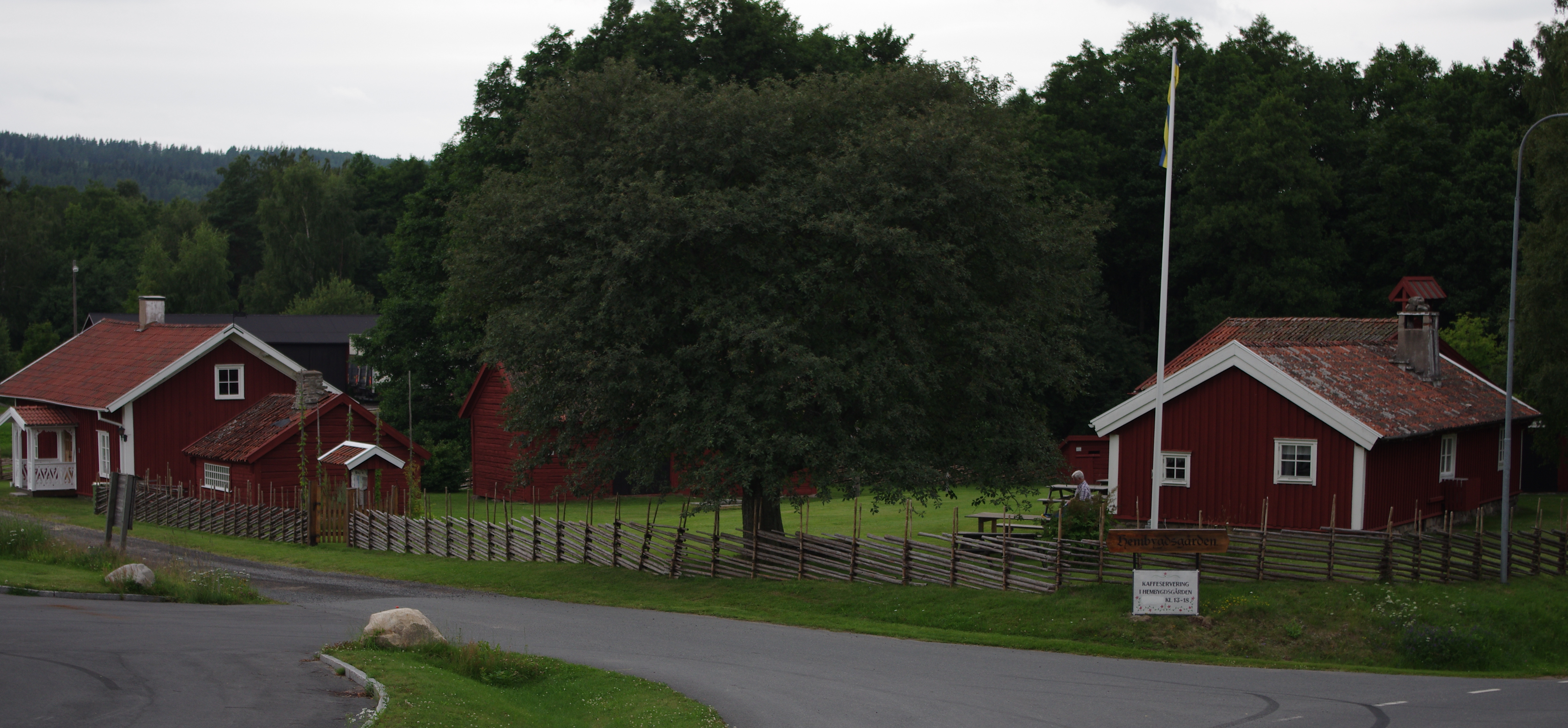 Bankeryd Folk Museum and the Brush Museum (far left)